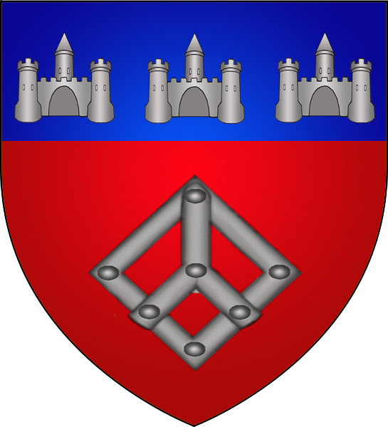 Coat of arms of the municipality of Tuntange, Luxembourg